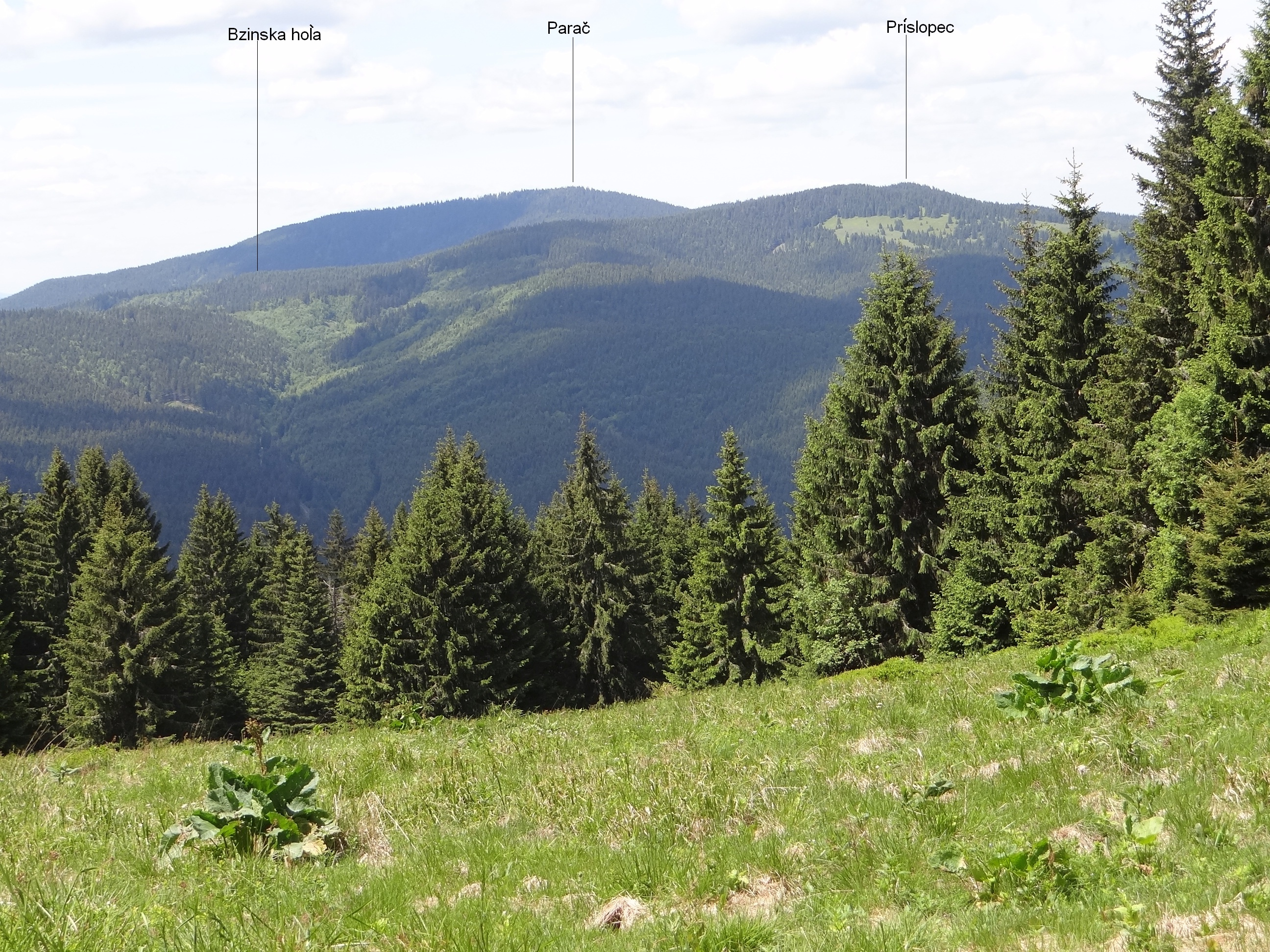 View from Mokradská hoľa